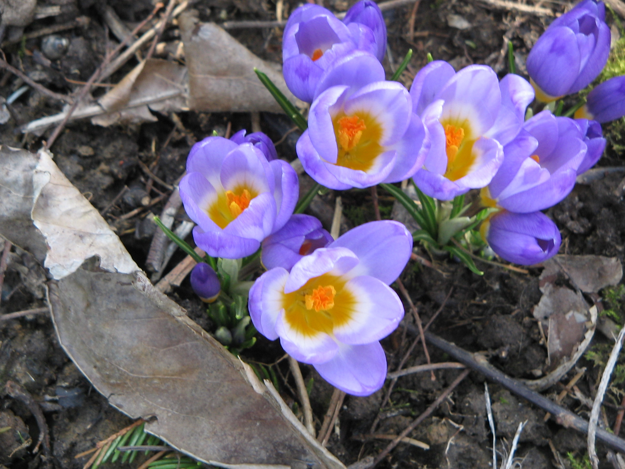 Crocus sieberi subsp. sublimis 'Tricolor'